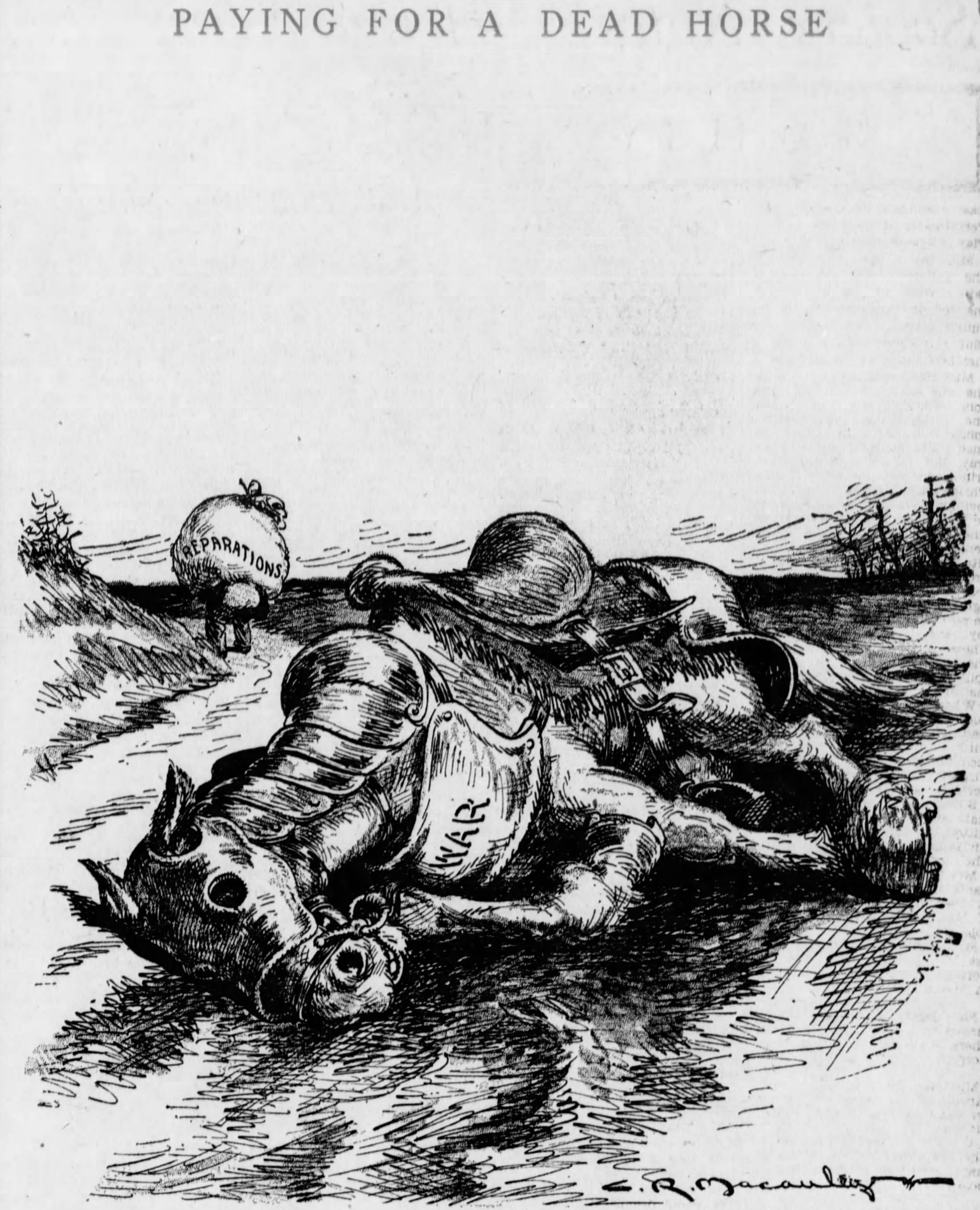 "Paying for a Dead Horse", an editorial cartoon commenting on World War I reparations. Winner of the 1930 Pulitzer Prize for Editorial Cartooning.